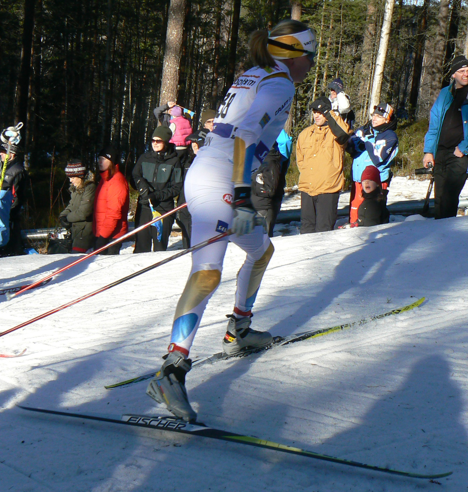 Sofia Bleckur (1984), Swedish cross-country skier (cropped from File:BleckurSanter.JPG)